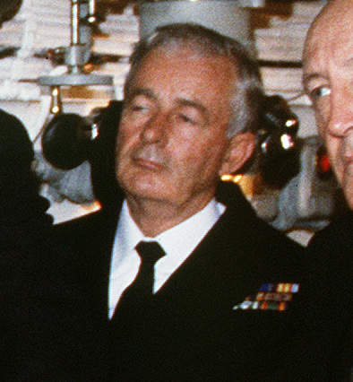 Gunner's Mate First Class V.W. Allen (far left) explains operations inside the No. 1 gun turret aboard the battleship USS MISSOURI (BB 63) to Rear Admiral (RADM) D.J. Martin, Royal Australian Navy (left center); Kim Beazley, Australian Minister of Defence, (right center); and Vice Admiral (VADM) M.W. Hudson, Royal Australian Navy (far right). The ship is on a port visit during a cruise around the world. Location: SYDNEY, NEW SOUTH WALES AUSTRALIA (AUS)